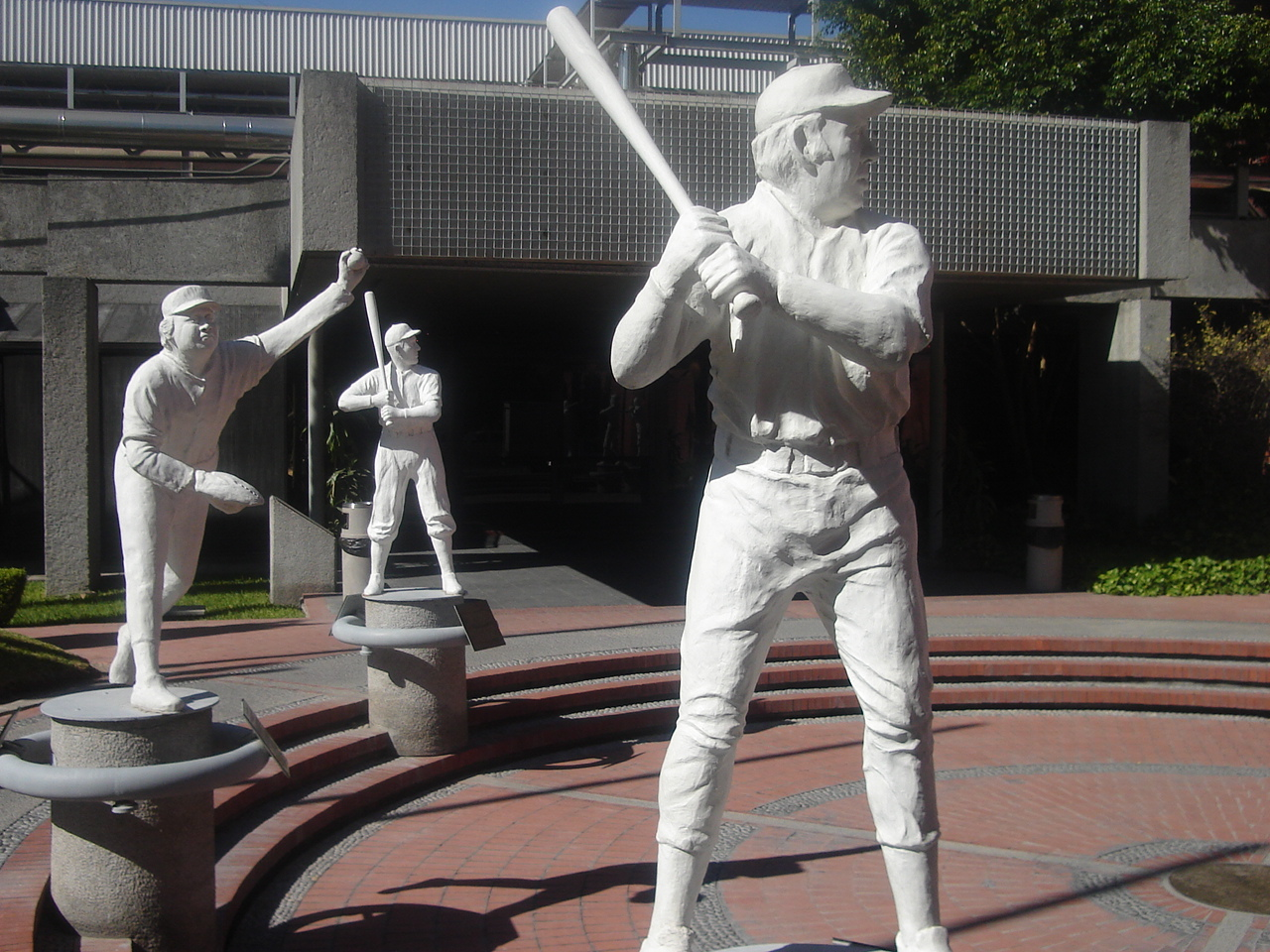 Salon de la Fama Beisbol Profesional Mexicana, Monterrey N.L. Created by: Mark Stevens, November 21, 2007.